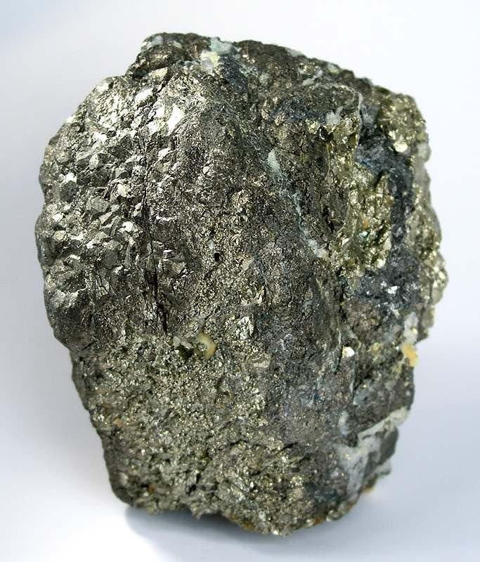 Colusite, Pyrite Locality: West Colusa Mine, Butte, Butte District, Silver Bow County, Montana, USA (Locality at ) Size: 5.7 x 4.8 x 3.1 cm. This is an incredibly rich specimen for this rare species. It comes from the collection of Colorado Bureau of Mines geologist Stanley Korozel via dealer Josef Vajdak, who was until recently on his retirement one of the more noted dealers in rarities. This was said to have been collected in the 1960's. Lustrous, metallic, gray crystals of colusite, to .8 cm in length, are associated with brassy crystals of pyrite, of similar size. Colusite is a rare copper, vanadium, arsenic, tin, antimony sulfide. The entire knob wrapping around the top is SOLID, crystallized colusite with a crystallized region of over 3 x 3 cm.